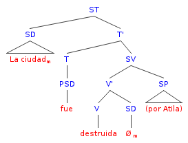 The Spanish sentence: La ciudad fue destruida (por Atila) 'The city was destroyed (by Attila)' (using passive voice)